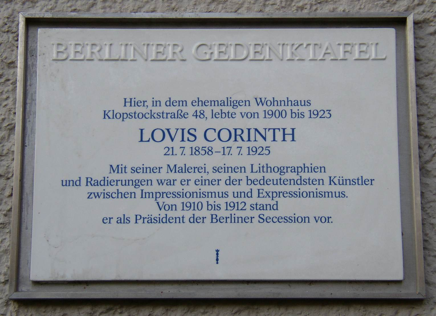 Berlin memorial plaque for Lovis Corinth, situated in front of Klopstockstraße 25/27 (former no. 48), in 10557 Berlin-Hansaviertel, Germany. Unveiled on Juli 13, 1998. Ca. 40 x 60 cm, made from china of the Königliche Porzellan-Manufaktur (KPM) (Royal China Manufacture). Inscription BERLIN MEMORIAL PLATE Here, in the former residential building Klopstockstraße 48, lived from 1900 to 1923 LOVIS CORINTH 21.7.1858 - 17.7.1925 With his paintings, his lithographs and etchings he was one of the most significant artists between impressionism and expressionism. From 1910 to 1912 he presided the Berlin Secession as its president.